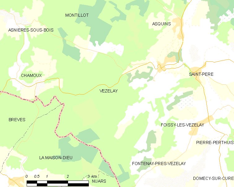 Map of French municipality Vézelay